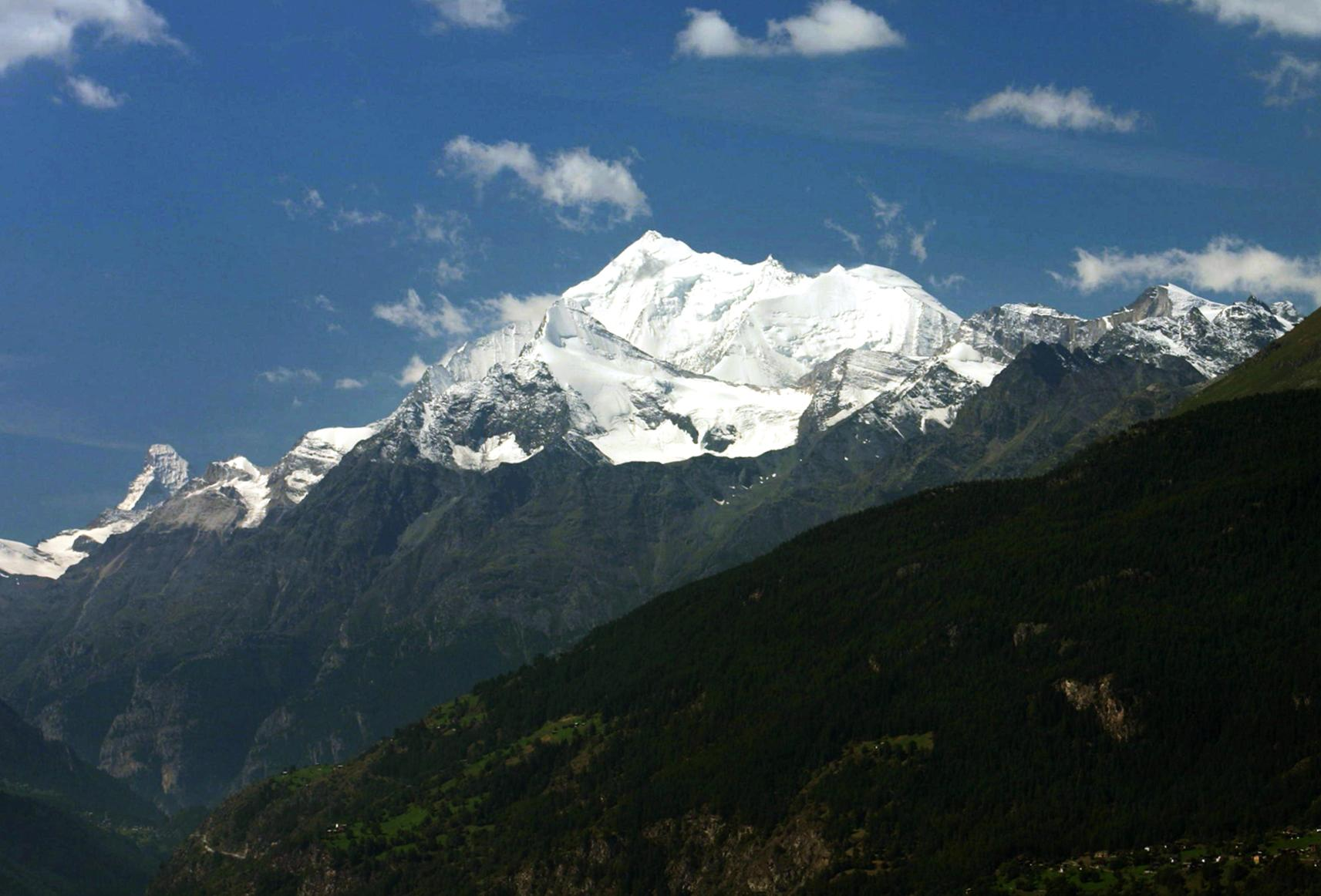 Weisshorn seen from above Brig in Valais, also visible is the Matterhorn on the left.